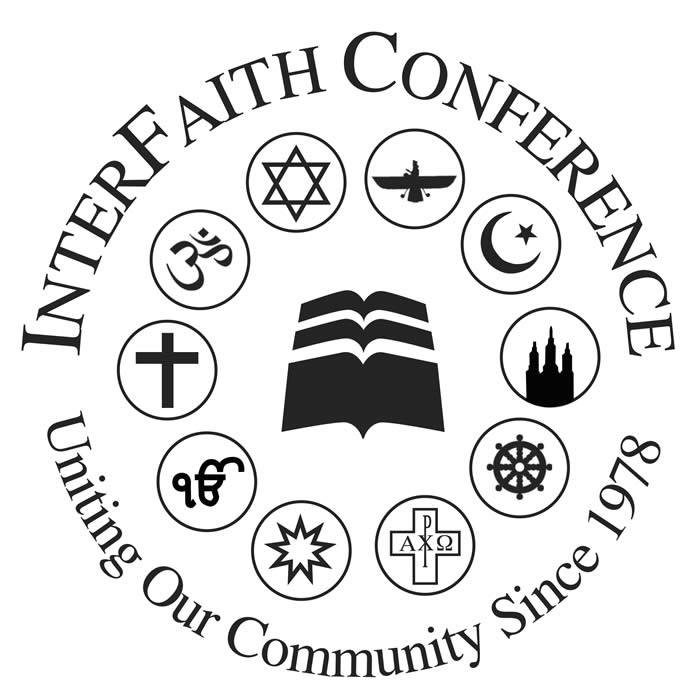 "InterFaith Conference of Metropolitan Washington"'s Logo